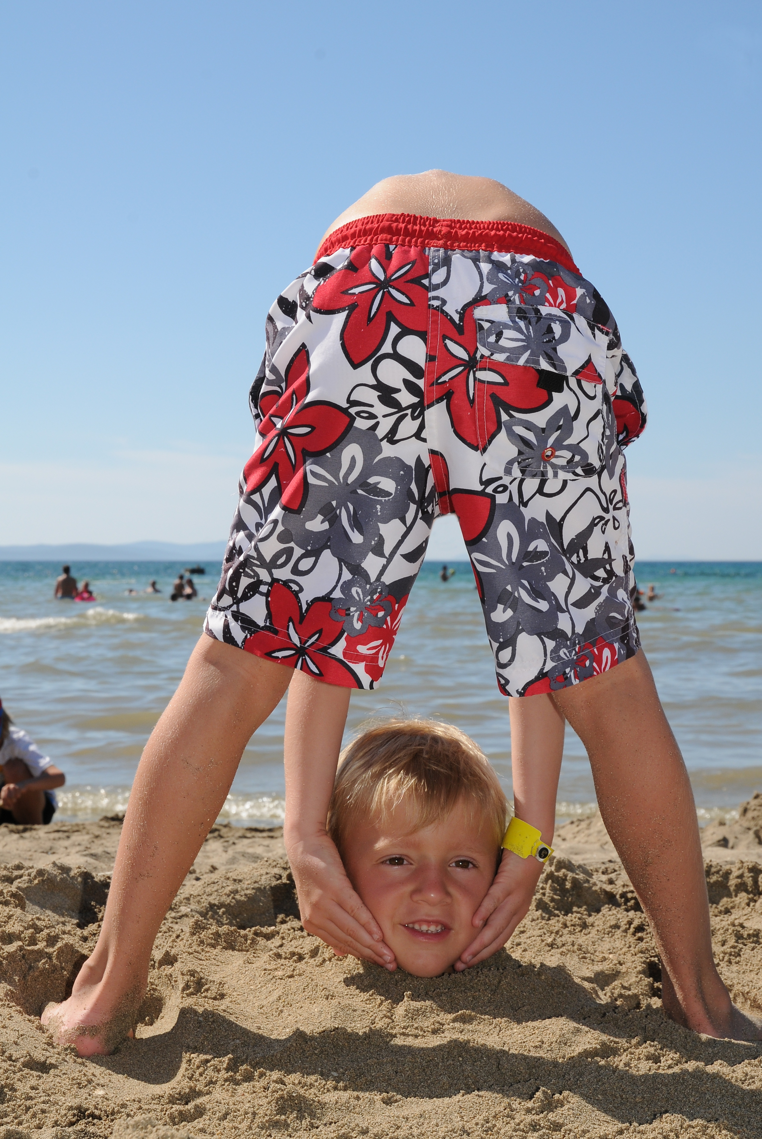 Two boys at the beach. One is buried in the sand and the other is bending forward while holding the other's head. (Not a photo montage)